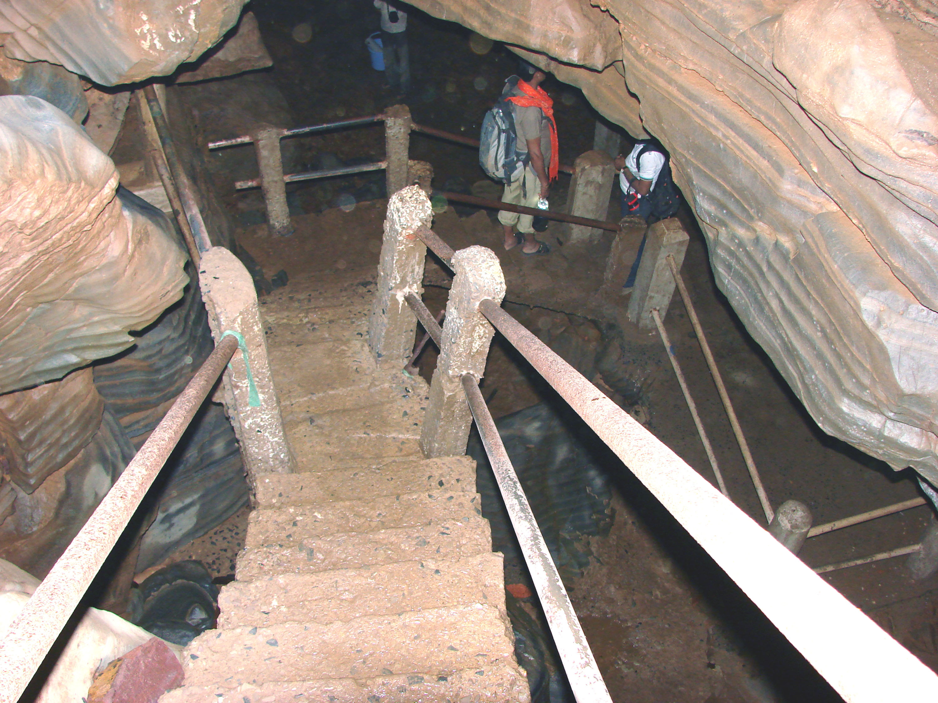 Concrete pathway is constructed for the convinience of the tourists